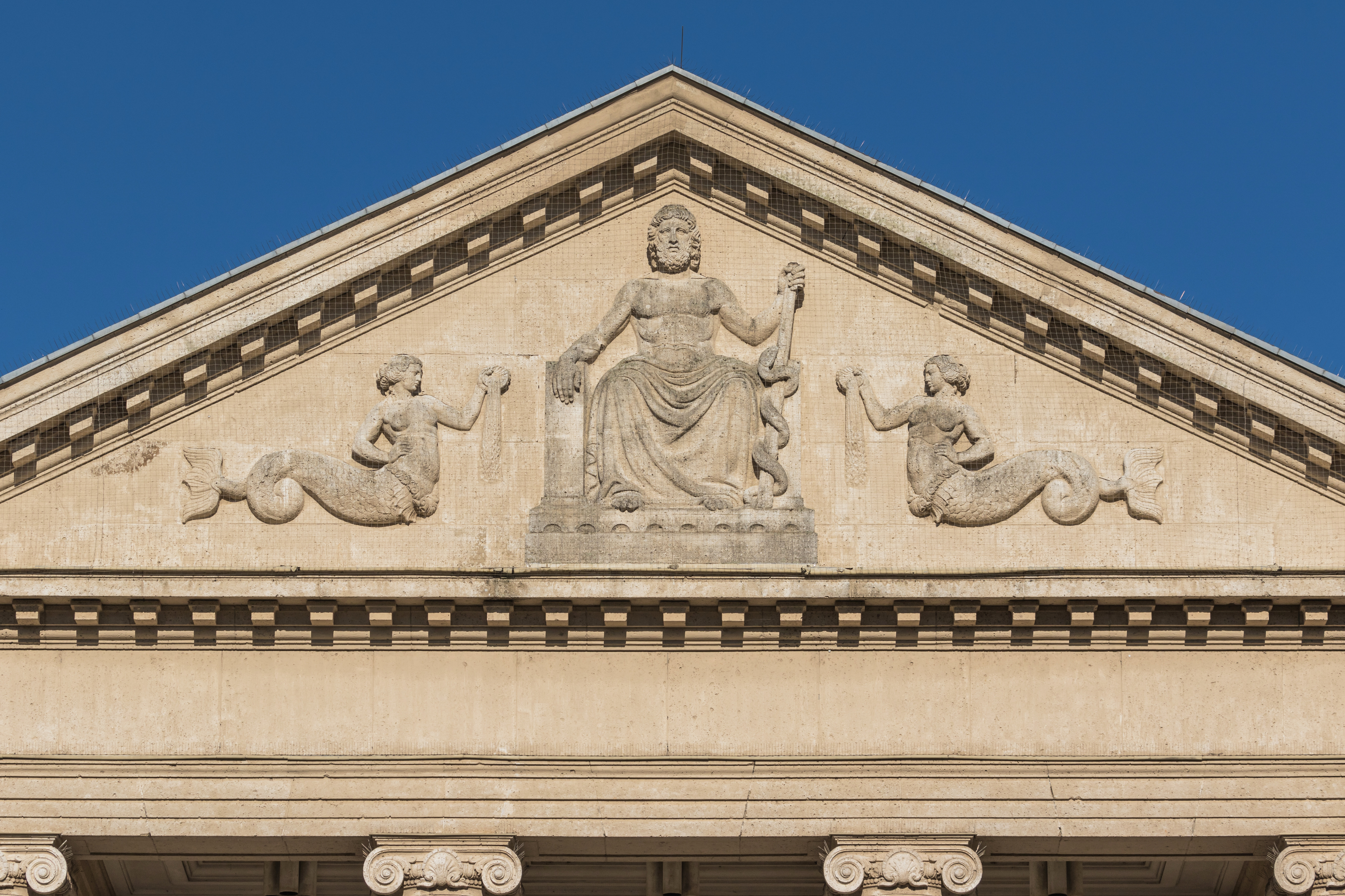 New Spa Hall in Aachen (Germany)